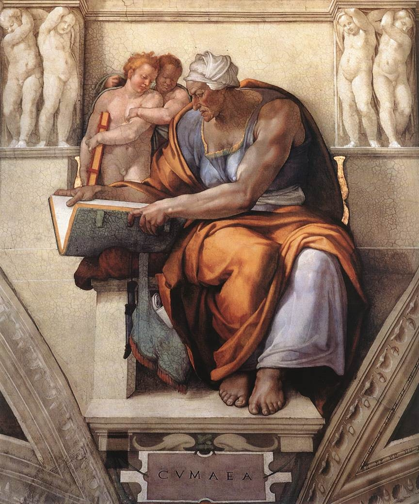 Cumaean Sibyllabel QS:Lde,"Cumäische Sibylle" label QS:Len,"Cumaean Sibyl" label QS:Les,"a Sibila de Cumas"